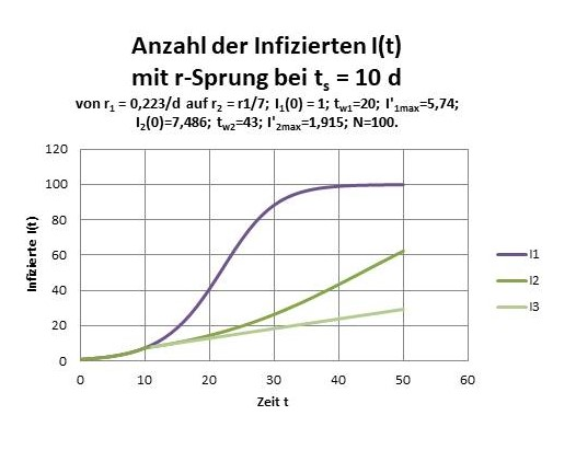 Number of infected people with r-jump